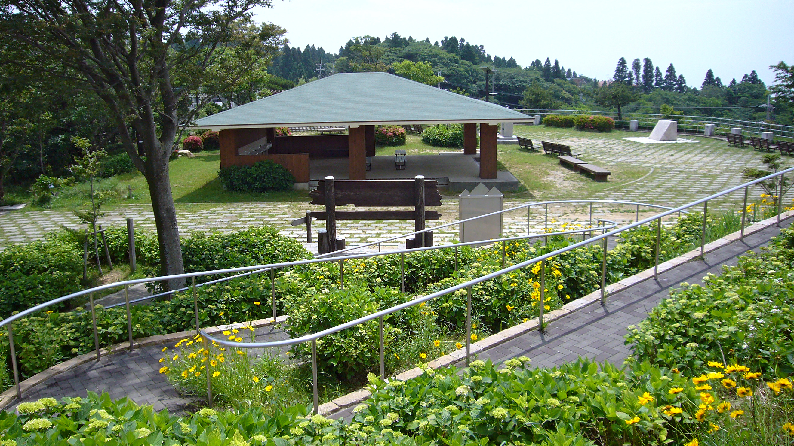 Kinenhidai in Mt.Rokko, Kobe, Hyogo prefecture, Japan